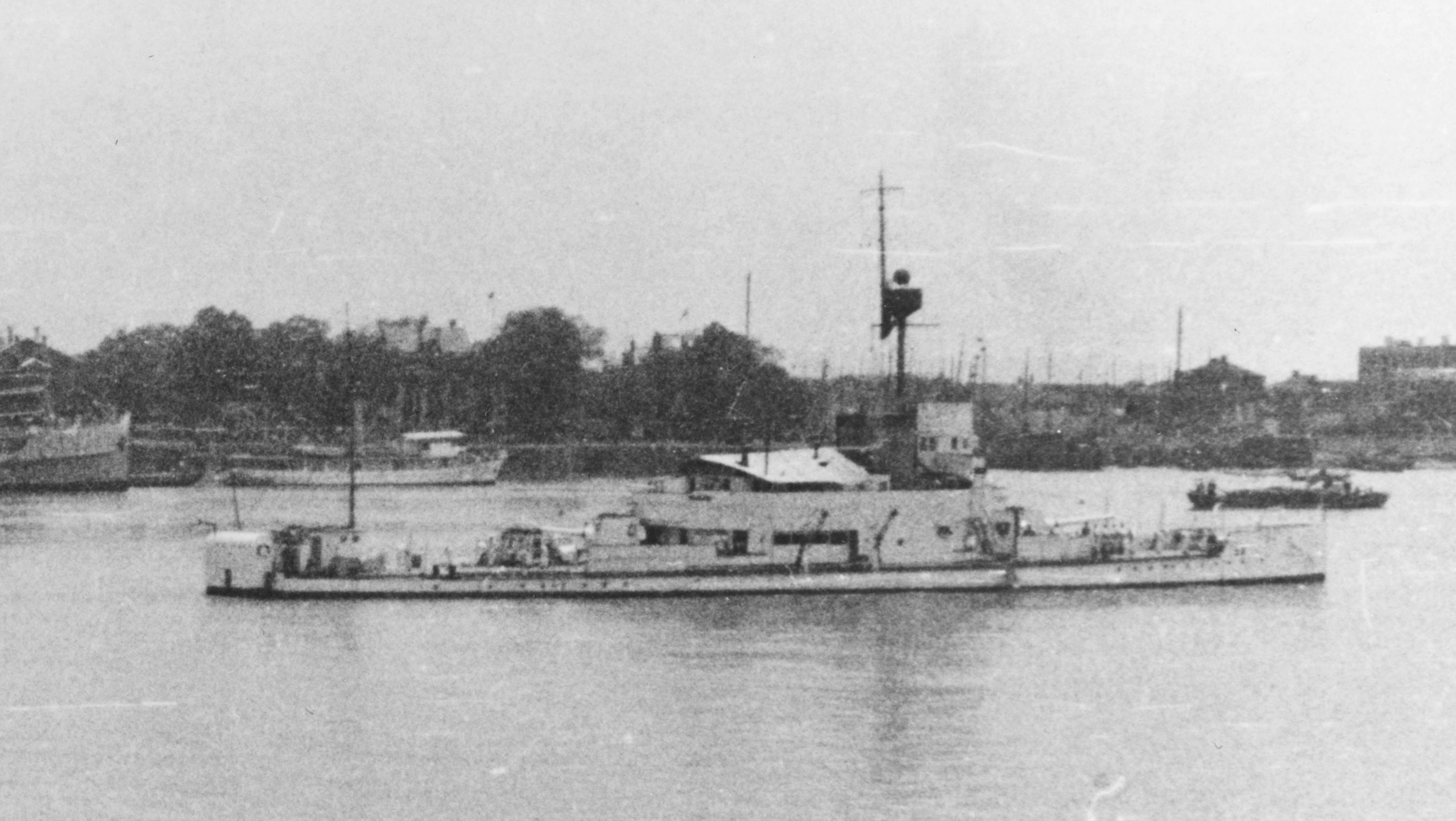 The Royal Navy Insect-class gunboat HMS Bee at Hankou, China, circa May 1937.